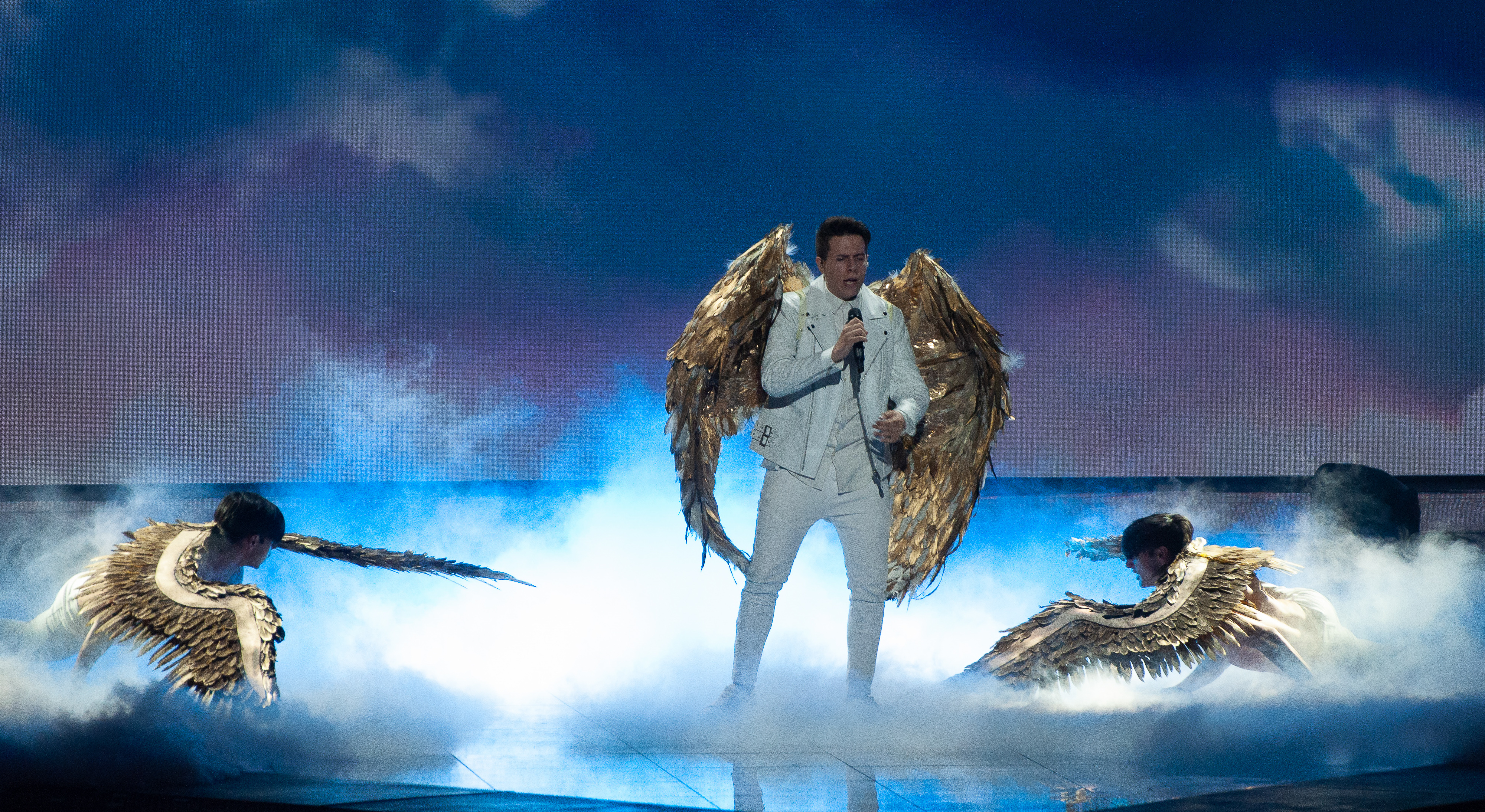 At the 2019 Eurovision Song Contest Semi-final 2 dress rehearsal